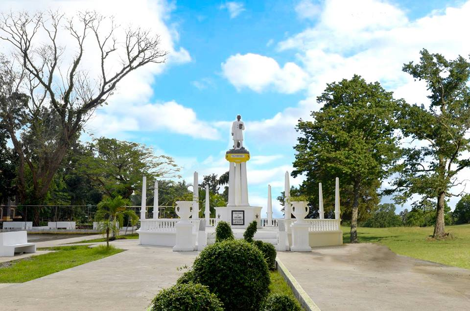 Rizal monument at the Makato public plaza.